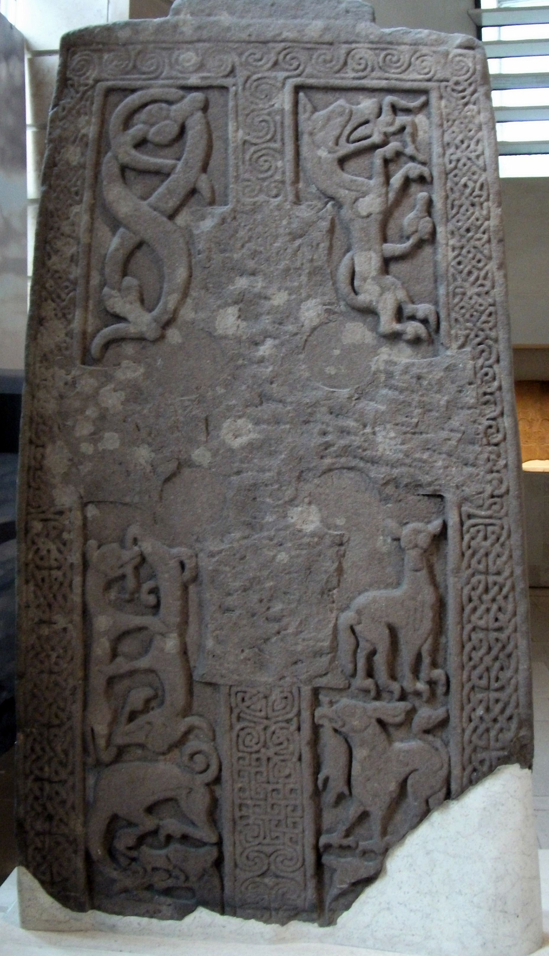 The Woodwrae Stone, a Pictish Stone in the National Museum of Scotland